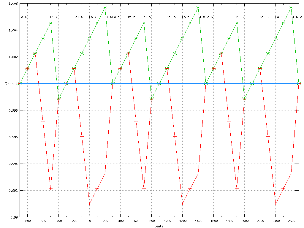 Relative Errors: Pythagorean (green) and Natural (red) Temperament versus Equal